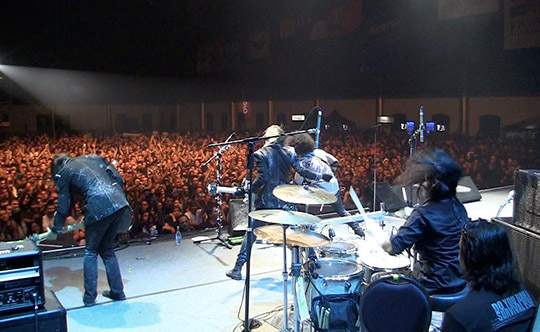 Cage9 performing in front of crowd at Ozzy Osbourne concert as his main supporting act in Panama City.